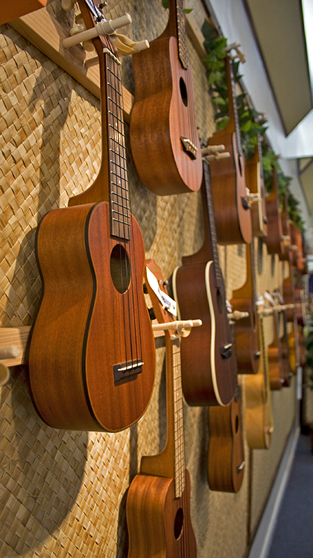 Picture of ukuleles on wall inside the Ukulele House — in Honolulu, Oahʻu, Hawaiʻi . Credits by User:Tijuana Brass.